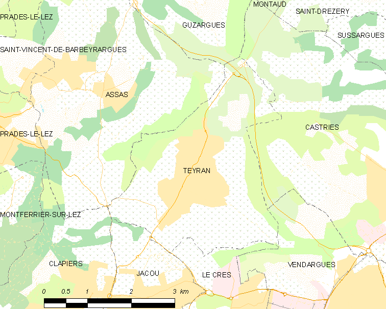 Map commune FR insee code 34309.png - Teyran